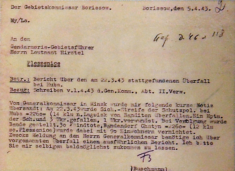 A letter from Standartenführer Buschmann, the Gobitskommissar of the city of Borisov, to the head of the gendarmerie of Borisov Uyezd, Lieutenant Hirstel, with a request to provide details on the partisan's attack on the police patrol near the village of Guba and the destruction of the village of Khatyn. It contains a provisional report on the destruction of the village of Khatyn and killing 90 of its inhabitants on March 22, 1943. The letter was issued on April 5, 1943. (in German) NARB. F. 391. Op. 1. D. 67. L. 2